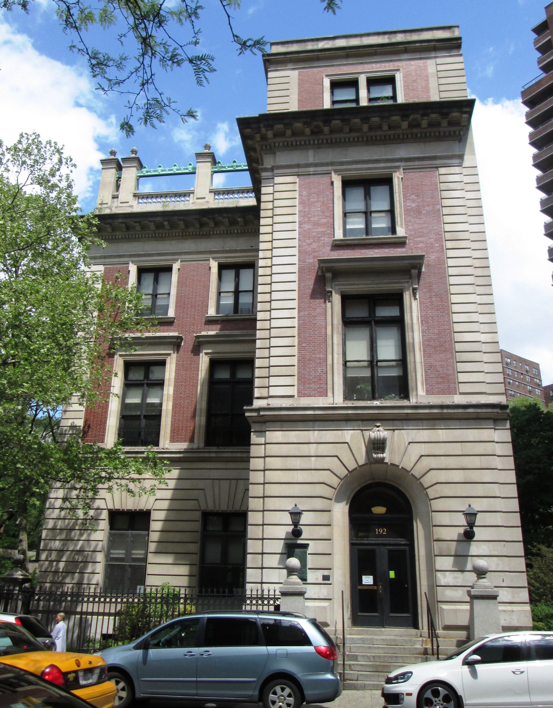 The Seward Park Branch of the New York Public Library at 192 East Broadway between Canal and Clinton Street in the Lower East Side neighborhood of Manhattan, New York City was built in 1909 and was designed by Babb, Cook & Welch. (Source: AIA Guide to NYC (5th ed.))